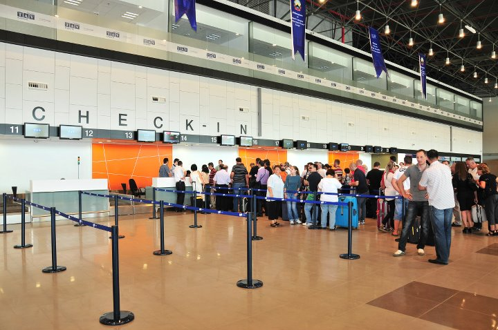 Check-in desks for the new terminal.